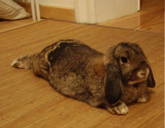 mini lop, rabbit, animal